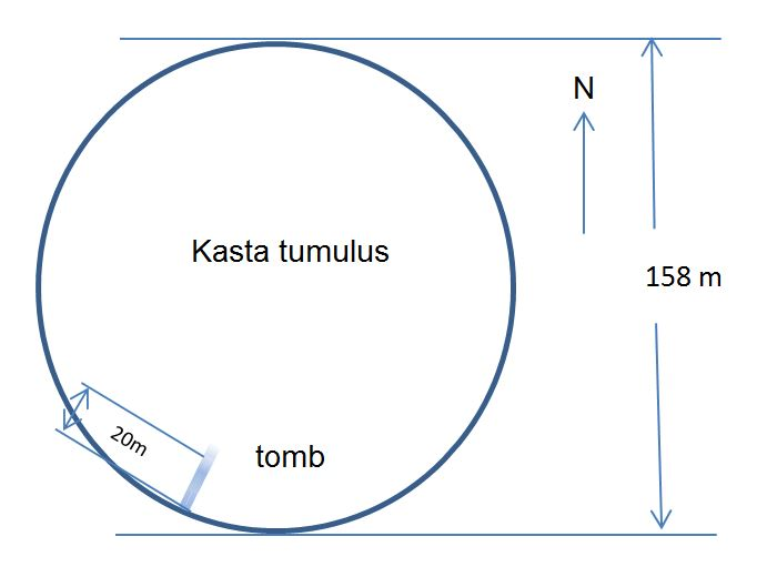 Kasta tumulus in Amphipolis, Macedonia. The tomb is also shown in scale. Tomb position is only indicative.